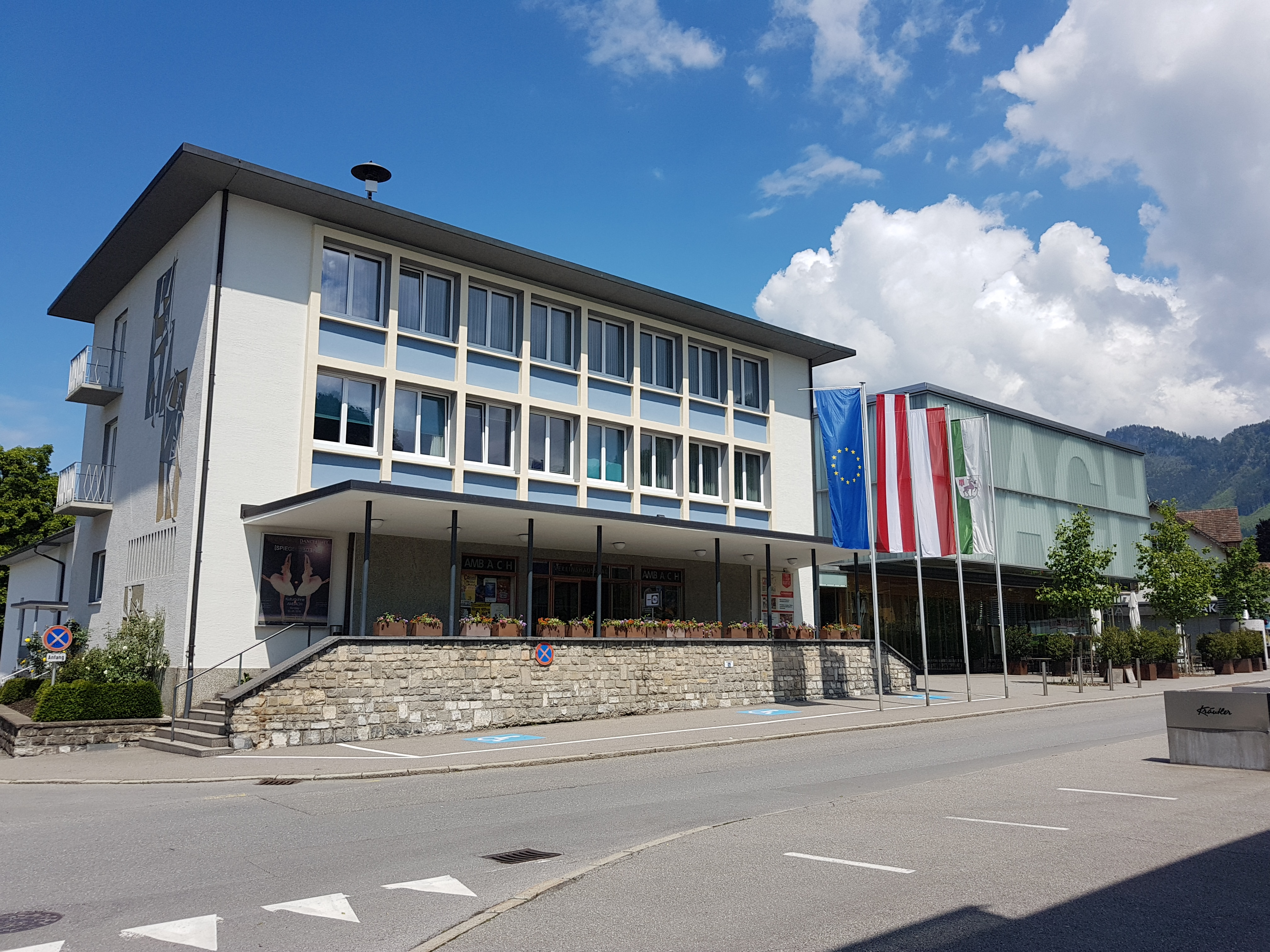 Part of the building complex "Kulturbühne AMBACH" (meaning: Culture Stage near the rivulet) in Götzis, Vorarlberg, Austria.